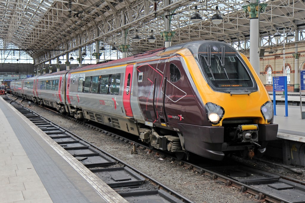 CrossCountry Class 221, 221124, platform 5, Manchester Piccadilly railway station